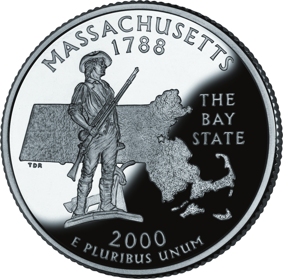 Removed background, cropped, and converted to PNG with Macromedia Fireworks. This image depicts a unit of currency issued by the United States of America. If Fraudulent use of this image is punishable under applicable counterfeiting laws. As listed by the United States Secret Service at money illustrations, the Counterfeit Detection Act of 1992, Public Law 102-550, in Section 411 of Title 31 of the Code of Federal Regulations (31 CFR 411), permits color illustrations of U.S. currency provided:1. The illustration is of a size less than three-fourths or more than one and one-half, in linear dimension, of each part of the item illustrated;2. The illustration is one-sided; and3. All negatives, plates, positives, digitized storage medium, graphic files, magnetic medium, optical storage devices, and any other thing used in the making of the illustration that contain an image of the illustration or any part thereof are destroyed and/or deleted or erased after their final use. Certain coins contain copyrights licensed to the U.S. Mint and owned by third parties or assigned to and owned by the U.S. Mint [1]. For the United States Mint circulating coin design use policy, see [2]; for the policy on the 50 State Quarters, see [3]. Also: COM:ART #Photograph of an old coin found on the Internet